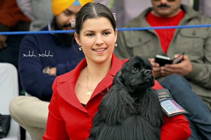 Andrea with . Romeo Black Charming Line